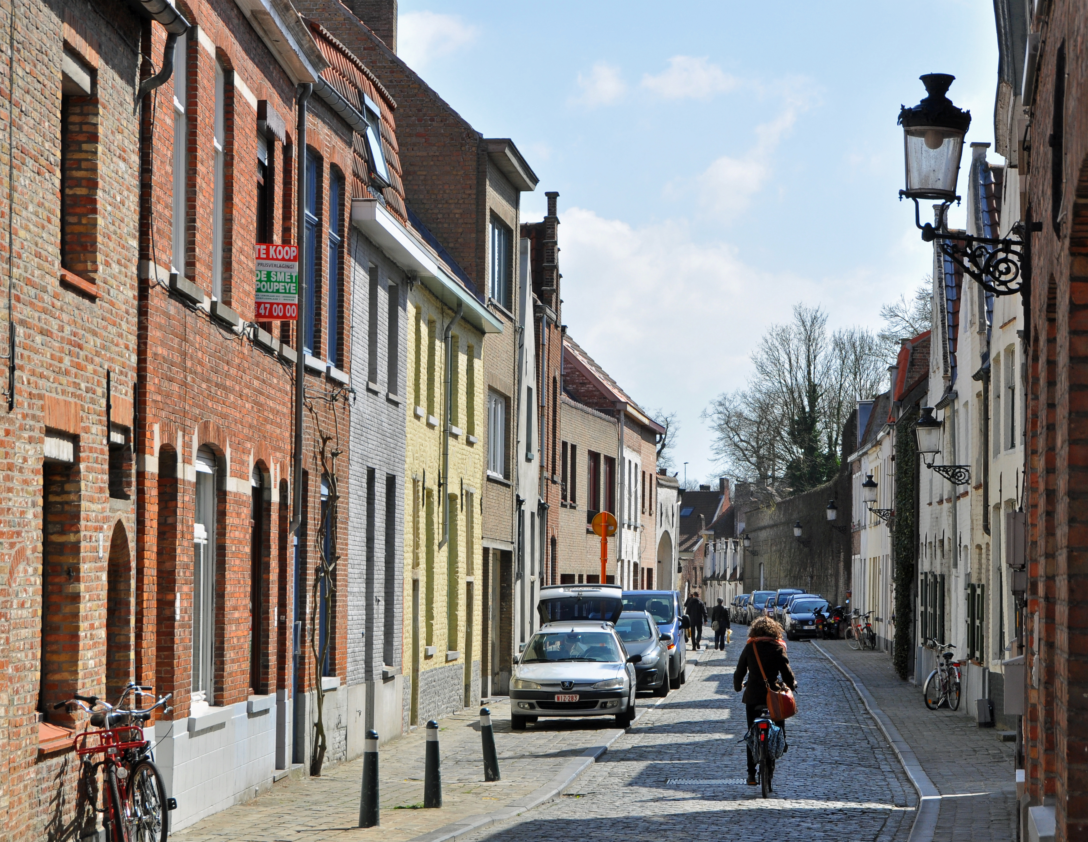 Bruges (Belgium): Visspaanstraat